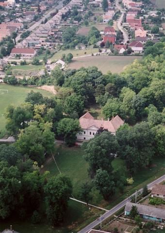 Dőry Mansion, Zomba-Dőrypatlan, Hungary, aerialphotgraphy